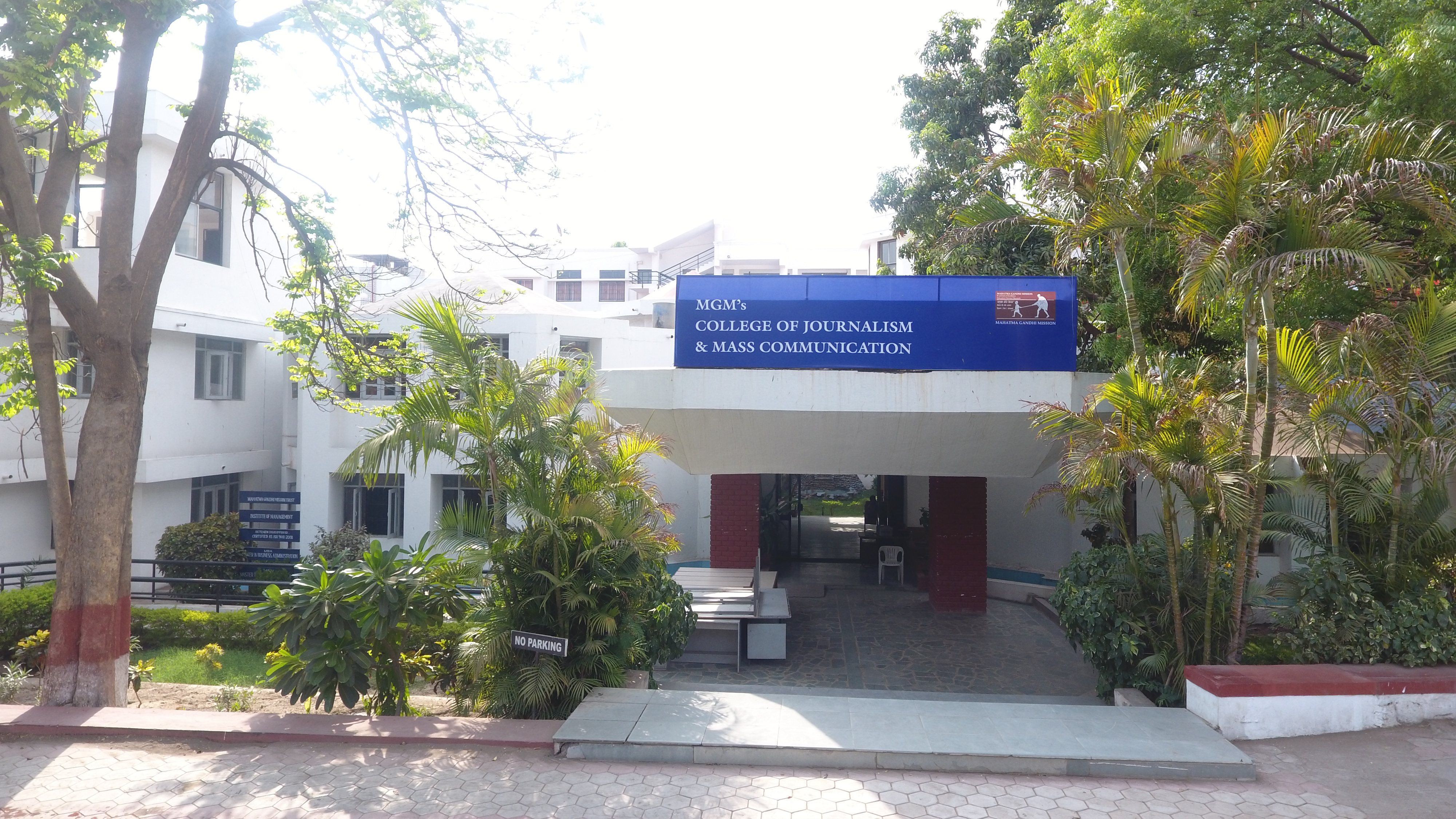 MGM Journalism & Mass Communication